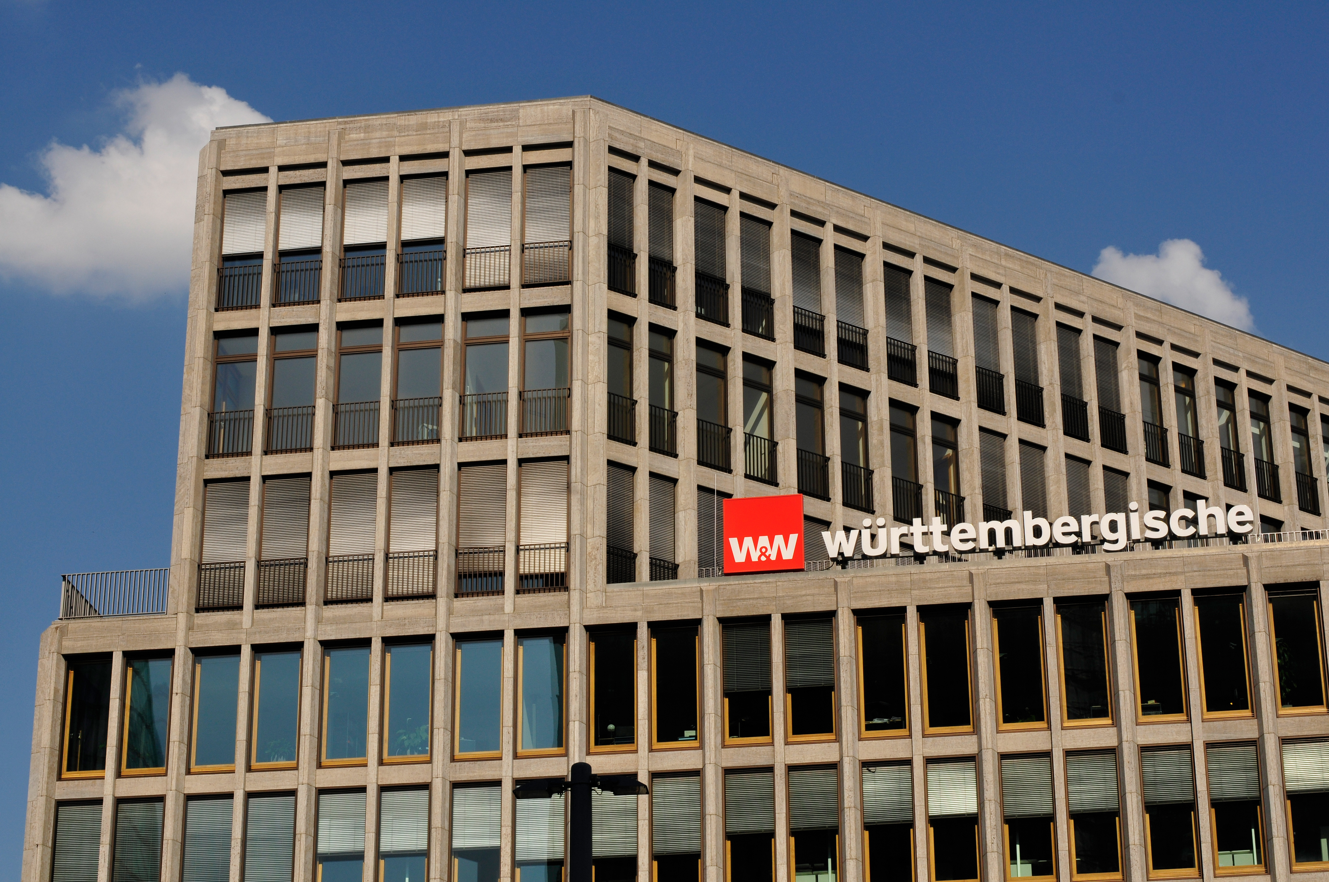 Potsdamer Platz Berlin